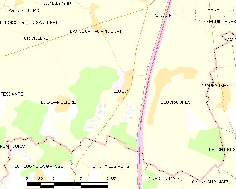 Map of French municipality Tilloloy